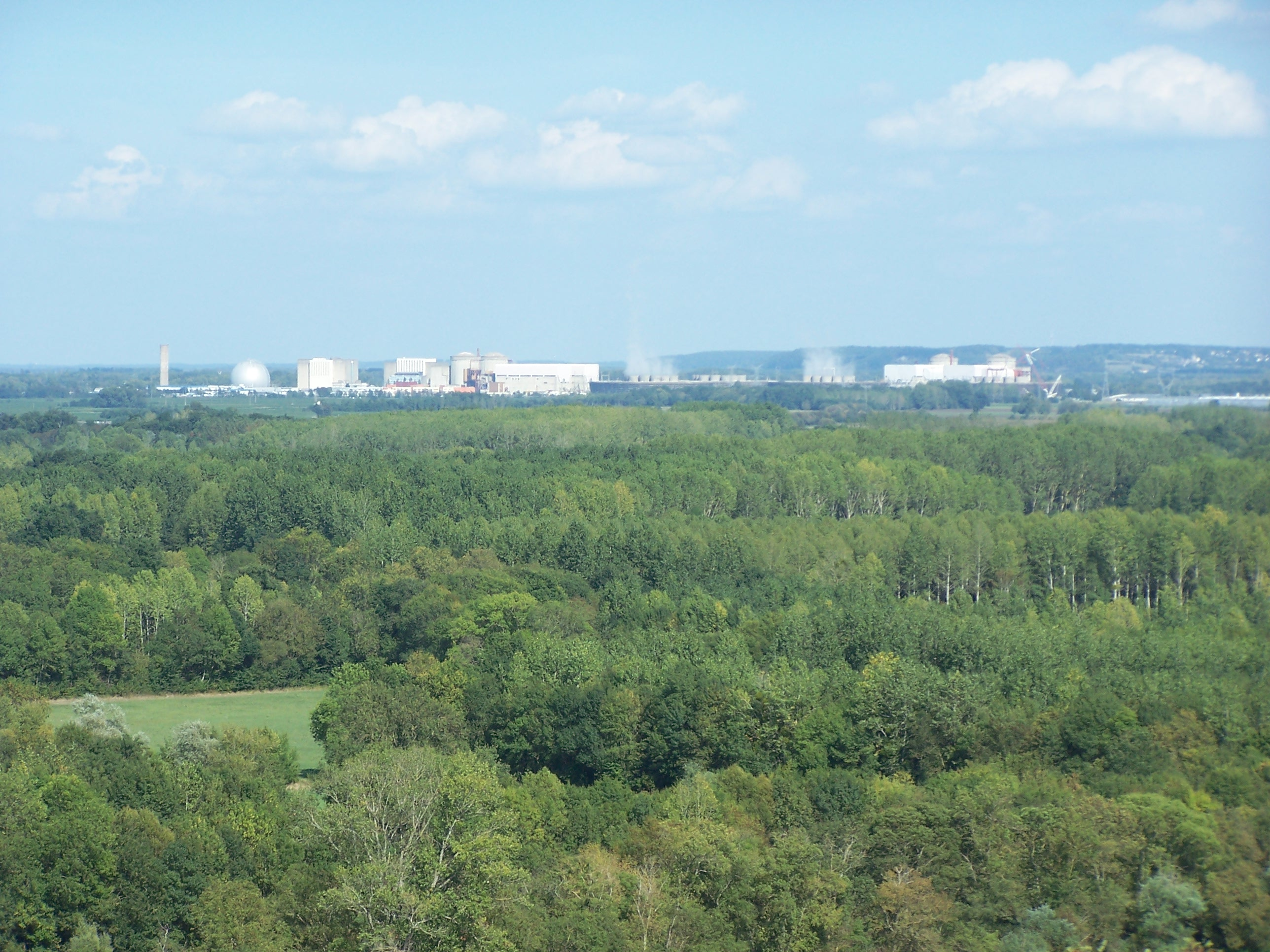 General view of the nuclear power plant of Chinon from Candes-Saint-Martin